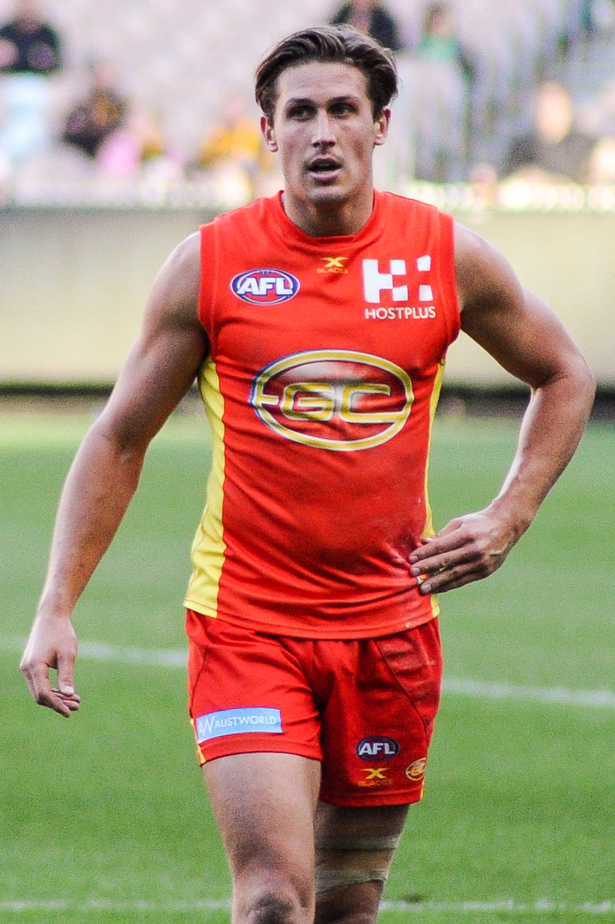 David Swallow during the AFL round twelve match between Melbourne and Collingwood on 10 June 2017 at the Melbourne Cricket Ground in Melbourne, Victoria.